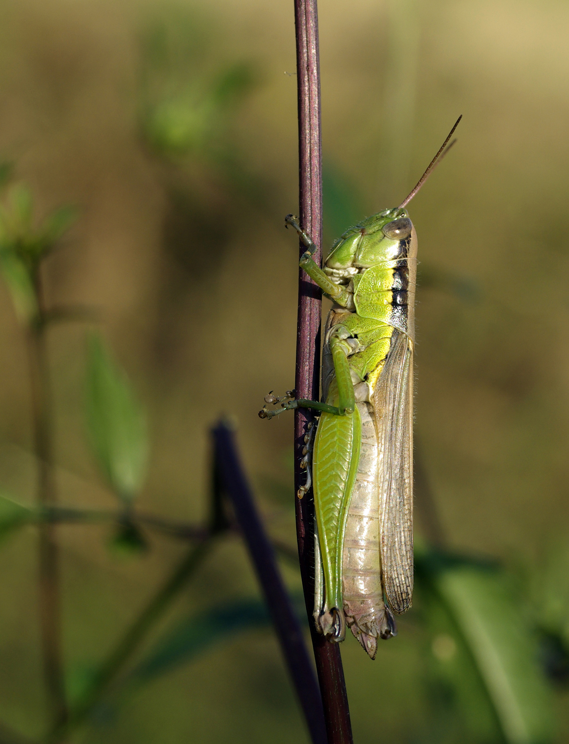 Locust